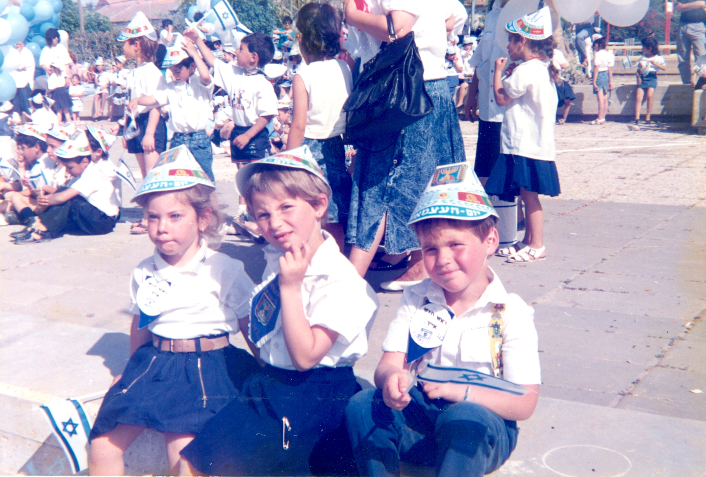 Children celebrate the Independence Day at Sapphire Square in Netivot with flags and hats